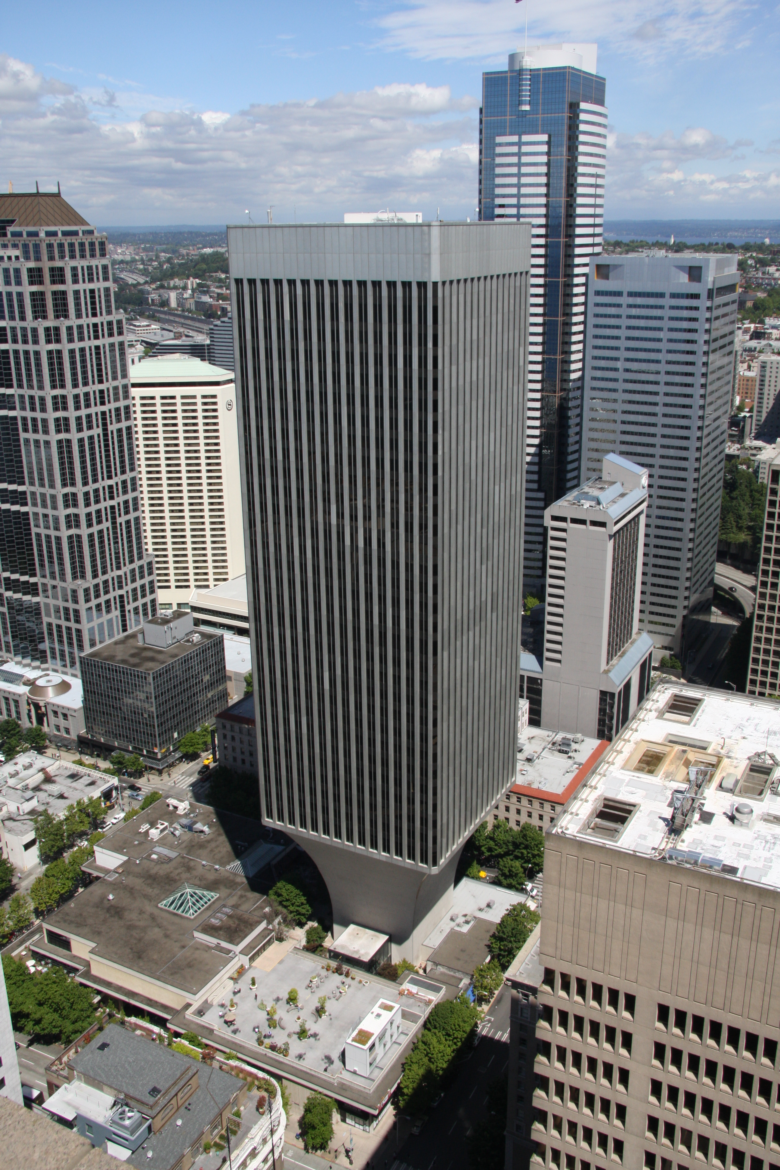 Rainier Tower from 48th floor sundeck of Washington Mutual Tower, August 1, 2008. Two Union Square is in the background.